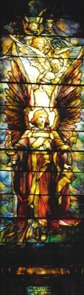 Tiffany Window in First Presbyterian Church, Springfield, Illinois U.S.A.